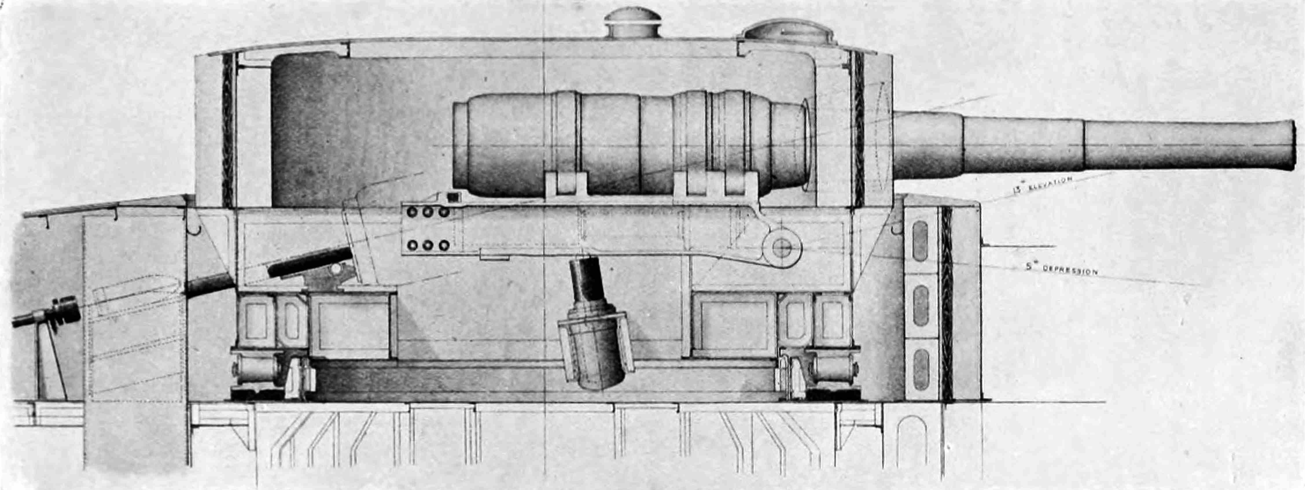 Drawing of BL 16.25 in calibre 111 ton gun as fitted on HMS Victoria (1885-1893). Section through battery and turret showing 18 inch armour